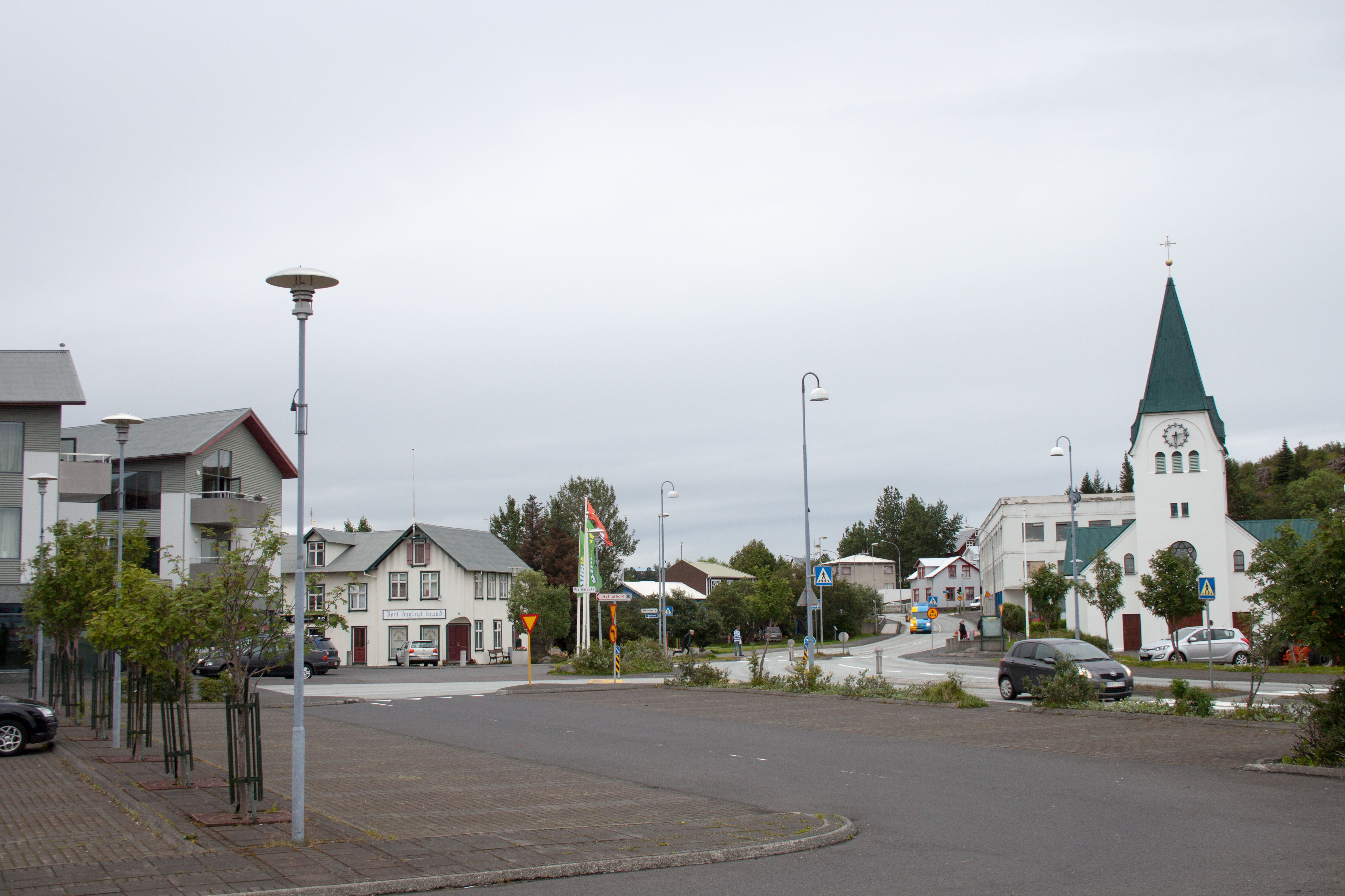 Centre of Hafnarfjördur